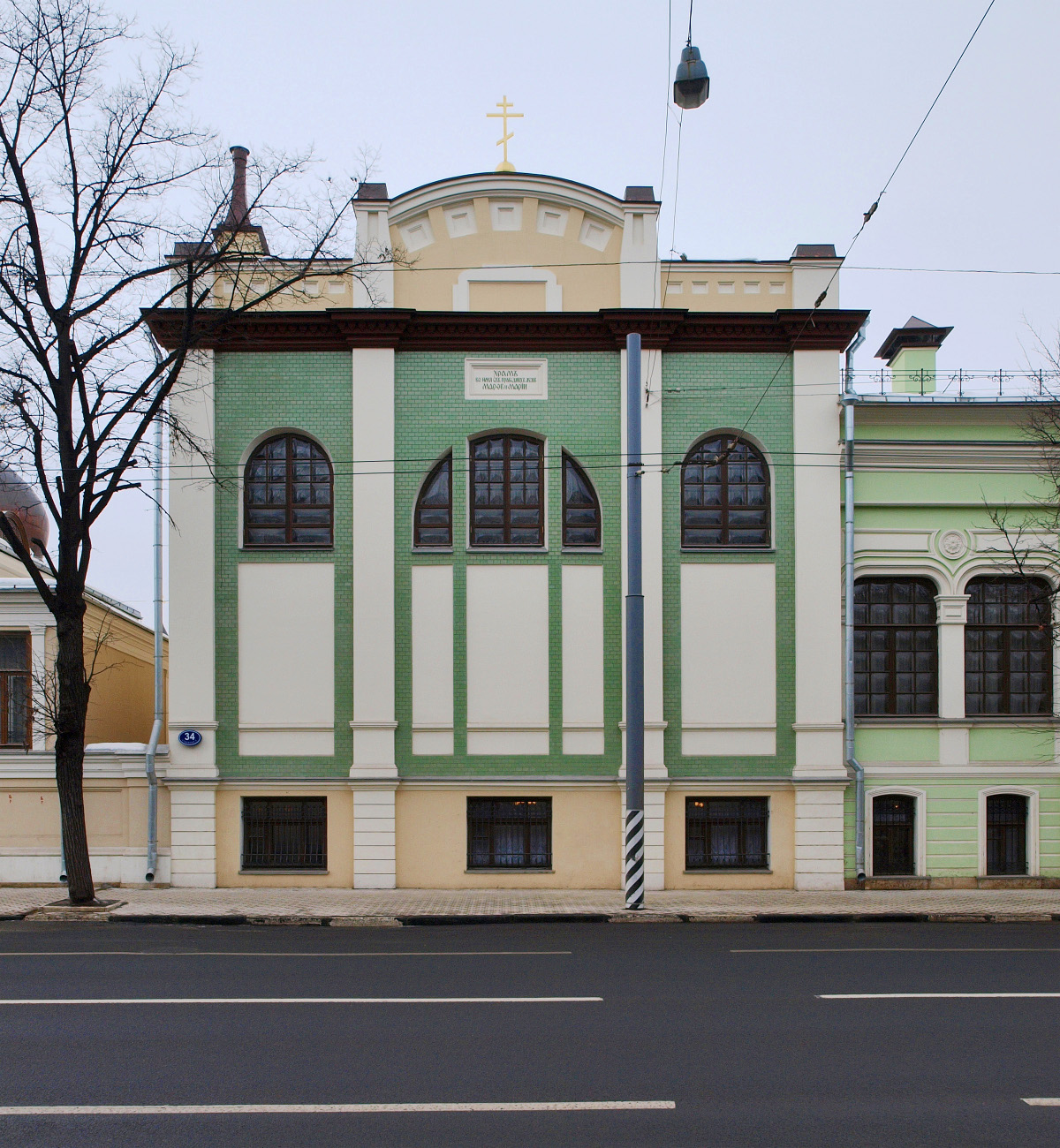 Bolshaya Ordynka Street, Moscow.